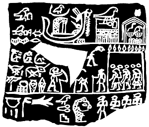 Ivory label from Abydos tomb of king Aha, with Horus and Nebty name (1st dynasty, Egypt)